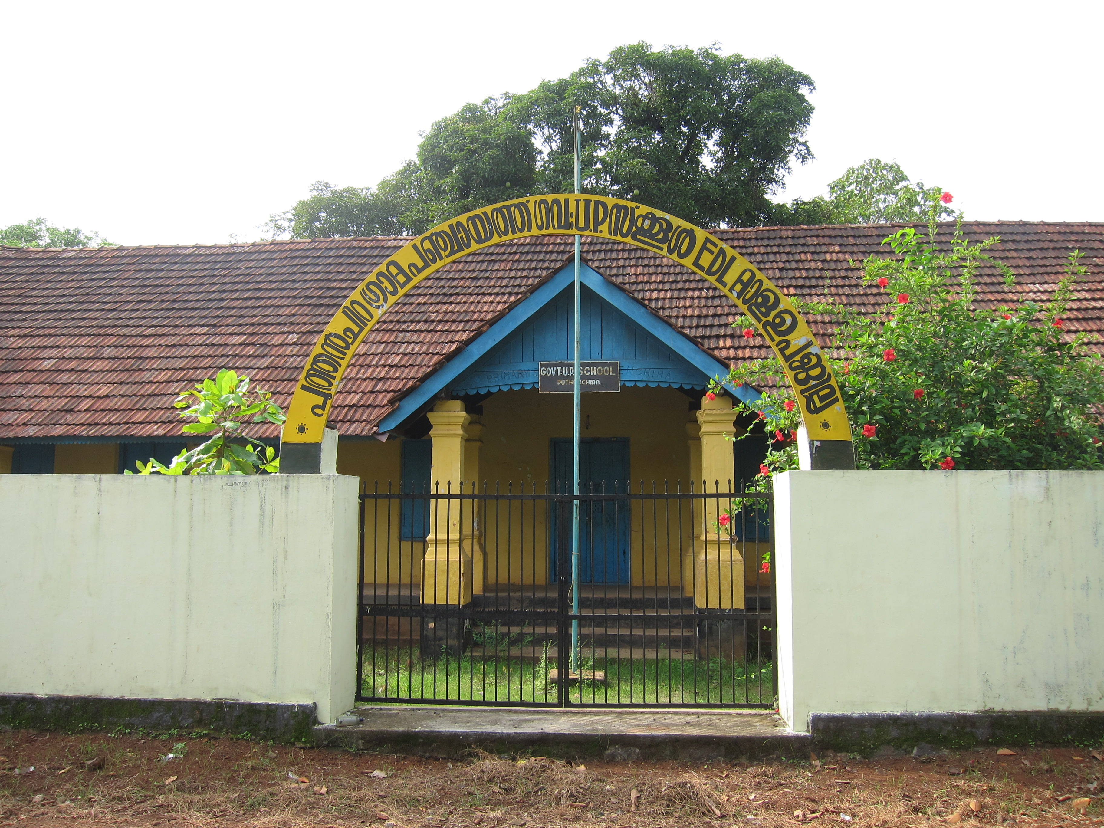 Puthenchira Govt. L.P School, Mala Educational Sub-District, Irinjalakuda Educational District, Thrissur District